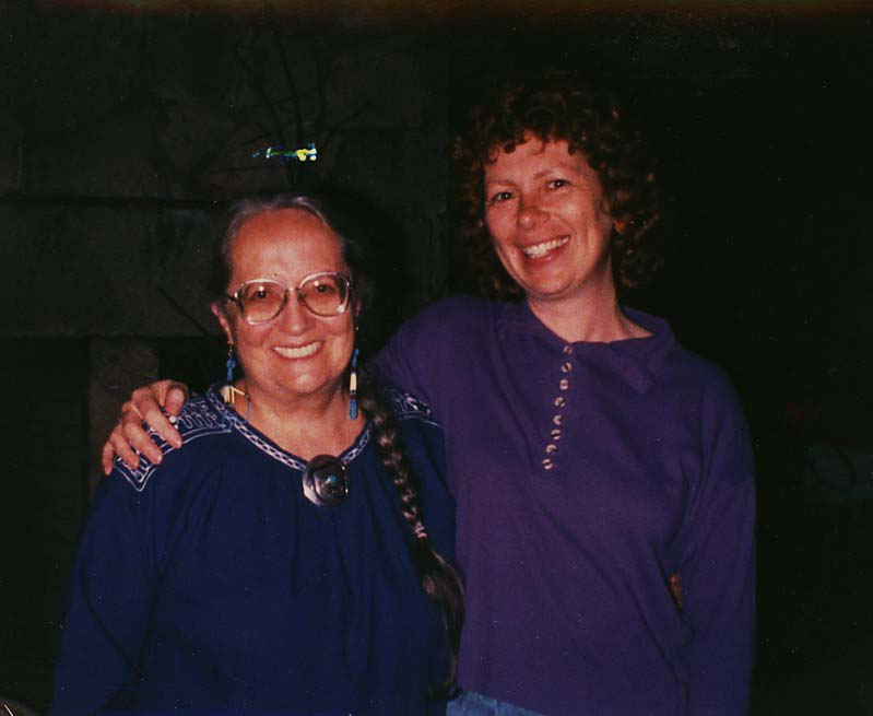 Felicitas Goodman and student, ca. 1988